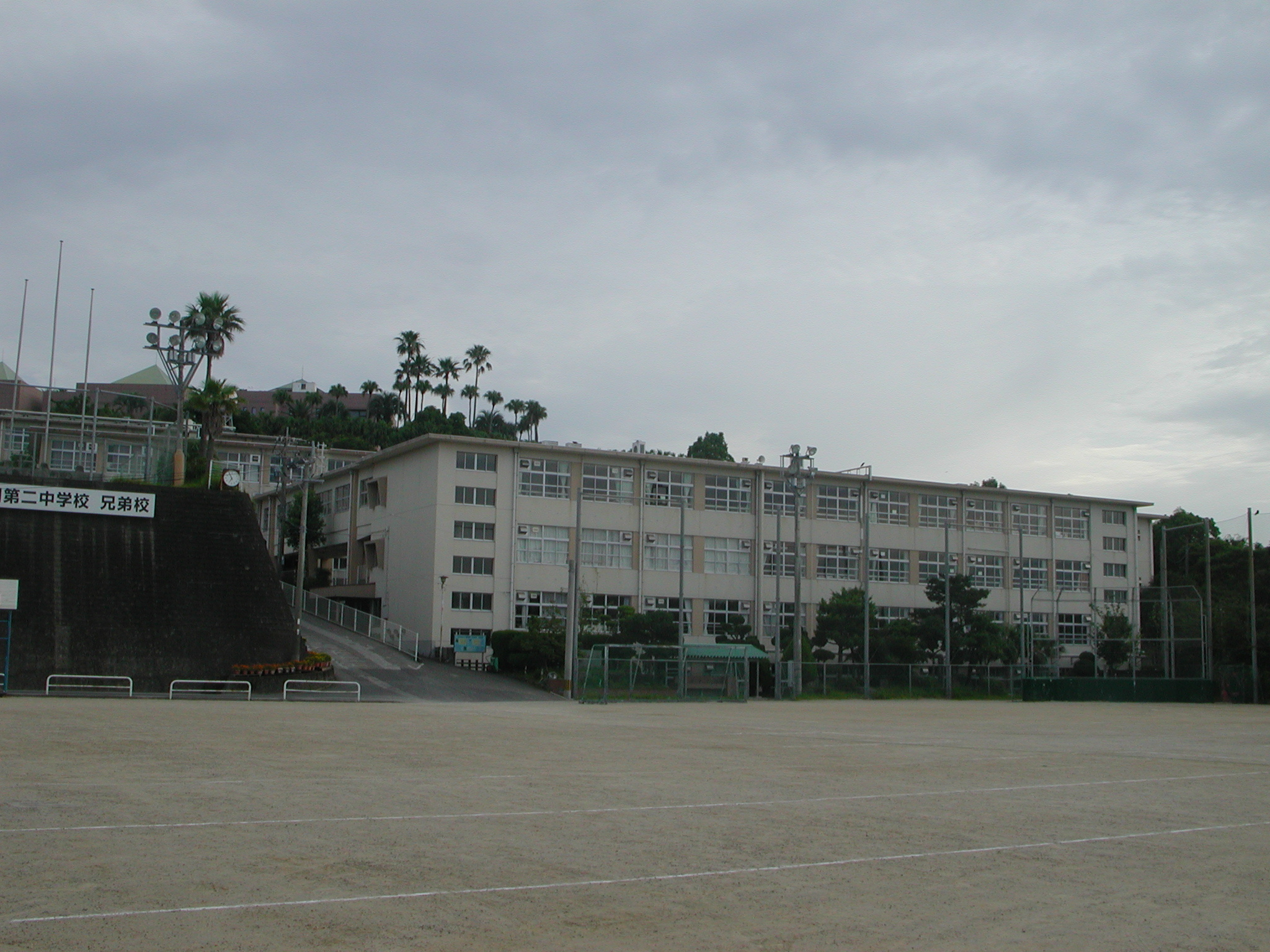 Kagoshima-Take Junior High School